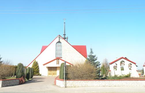 St. Joseph's Church in Wręczyca Wielka